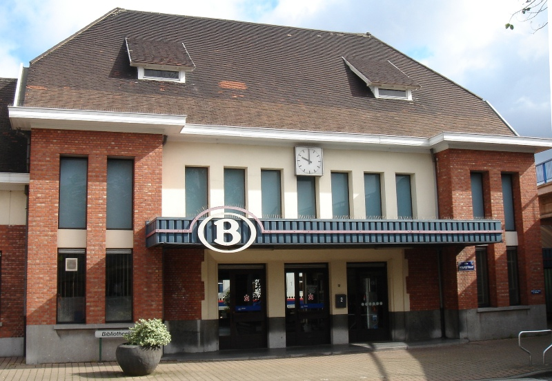 Izegem railway station